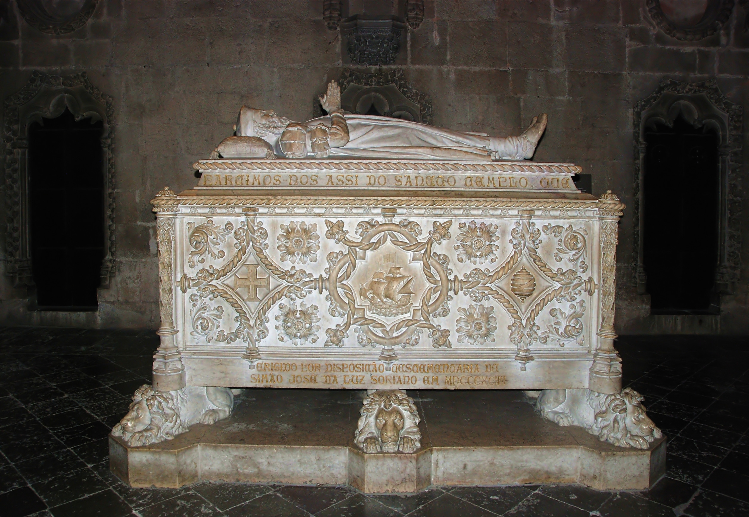 The tomb of Vasco da Gama, in the Jerónimos Monastery, Lisbon.